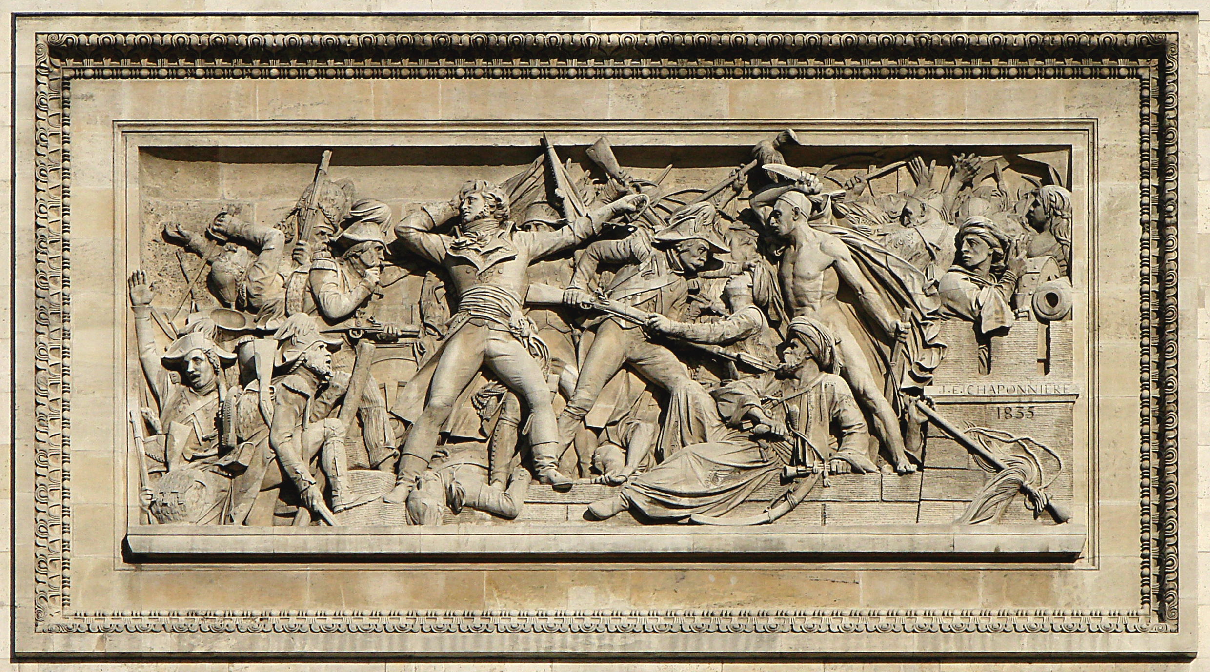 The Arc de Triomphe de l'Étoile in Paris, seen from the avenue de la Grande-Armée. Upper relief of the left : Fall of Alexandria on 3 jul 1798 by J-E Chaponnière.